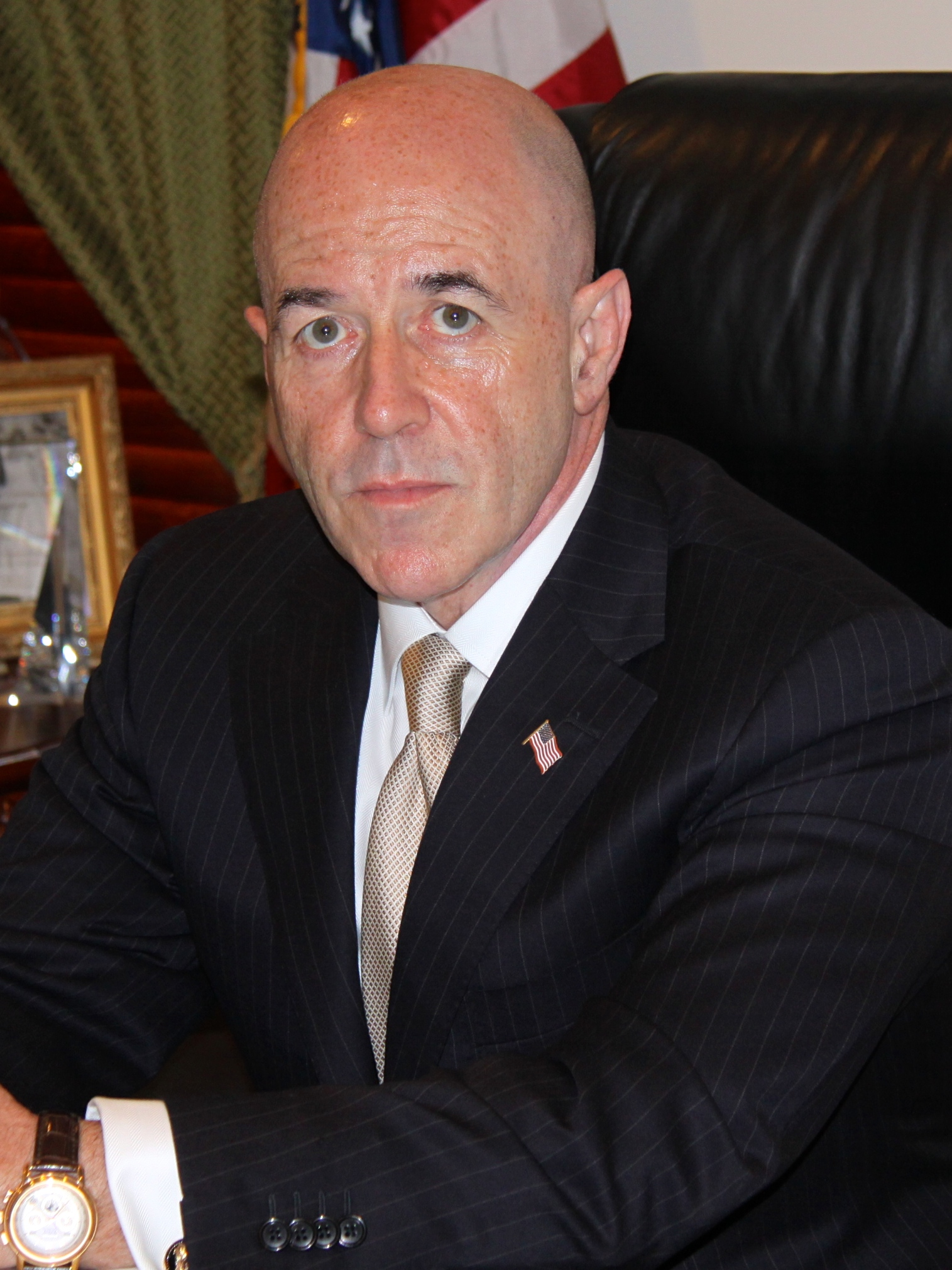 Bernard Kerik, former Police Commissioner of the City of New York.